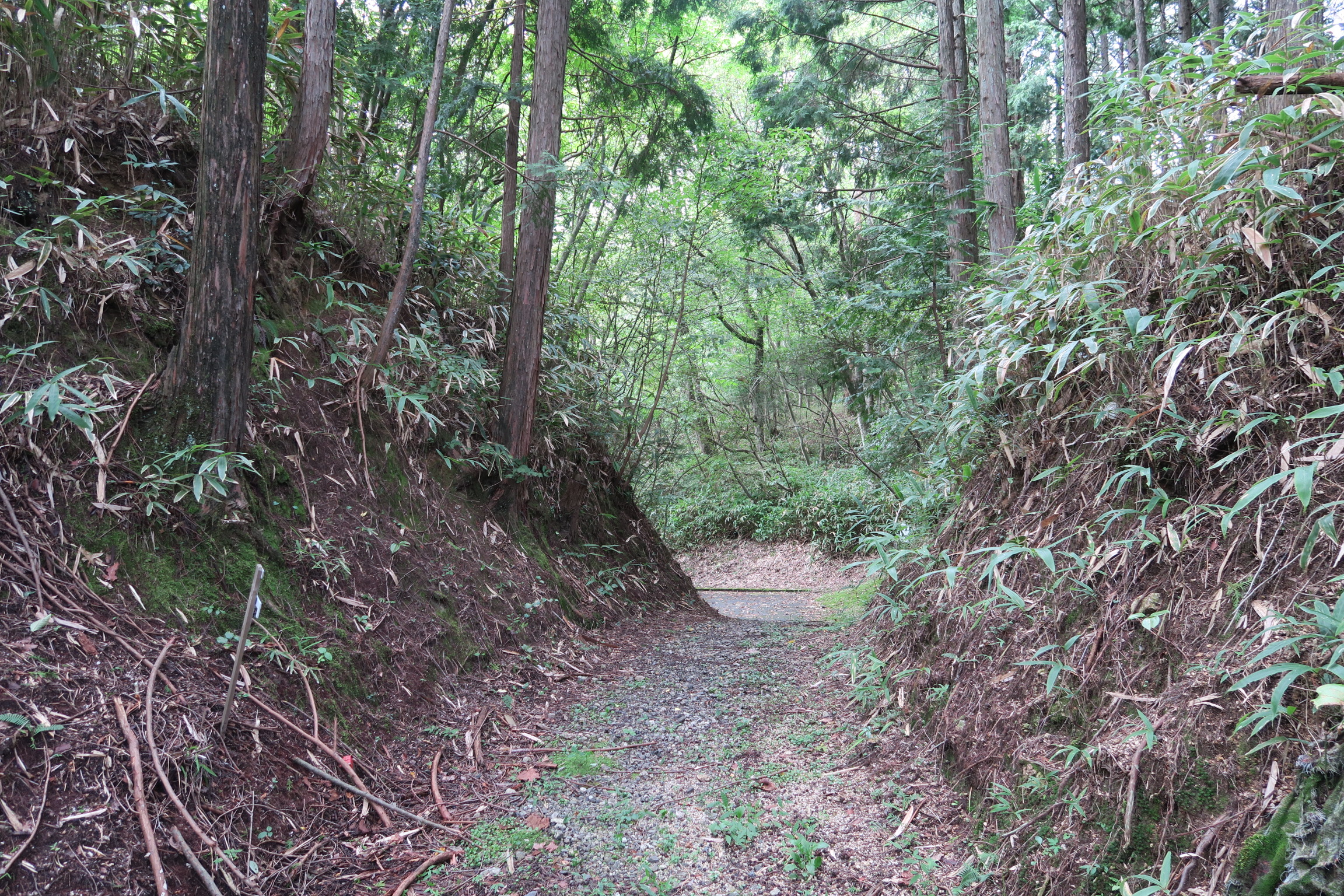 Sakura Pass between Koka and Iga